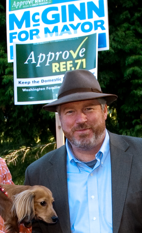 Michael McGinn at an Approve R-71 rally in Seattle, along with a dog.